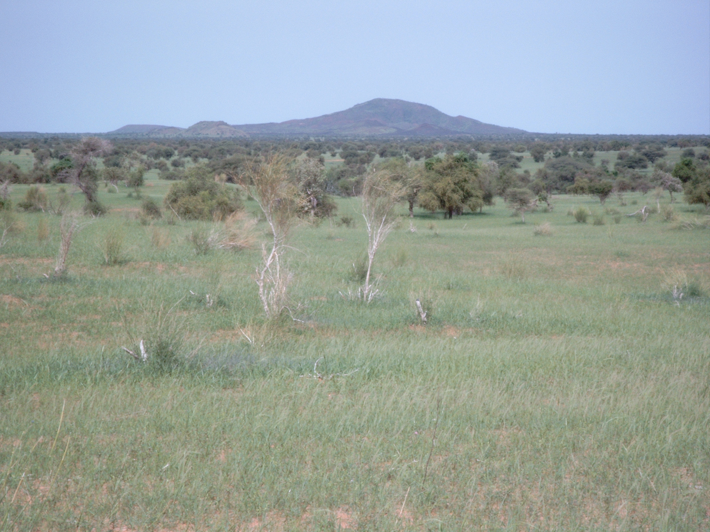 Dune of Oursi, looking on Tin Hedia.